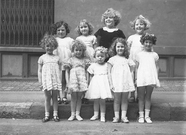 Format: Glass photonegative Notes: Reproduced in Sydney Exposures...[by] Alan Davies (1991), p.21. Sydney Exposures book and exhibition caption: Shirley Temple look-alikes, Newtown, 2 October 1934 : In the mid-1930s, the enormous success of child film star Shirley Temple popularised tap dancing classes around the world and curly locks for little girls became de rigueur. Competitions to find Shirley Temple look-alikes proved popular, but the resemblance between the film star and the entrants in this group is apparent only to their mothers. There is a little snippet and photo of the winner here: .au/nla.news-article121640432 Find more detailed information about this photograph: .au/item/itemDetailPaged.aspx?itemID=52256 Search for more great images in the State Library's collections: .au/search/SimpleSearch.aspx From the collection of the State Library of New South Wales